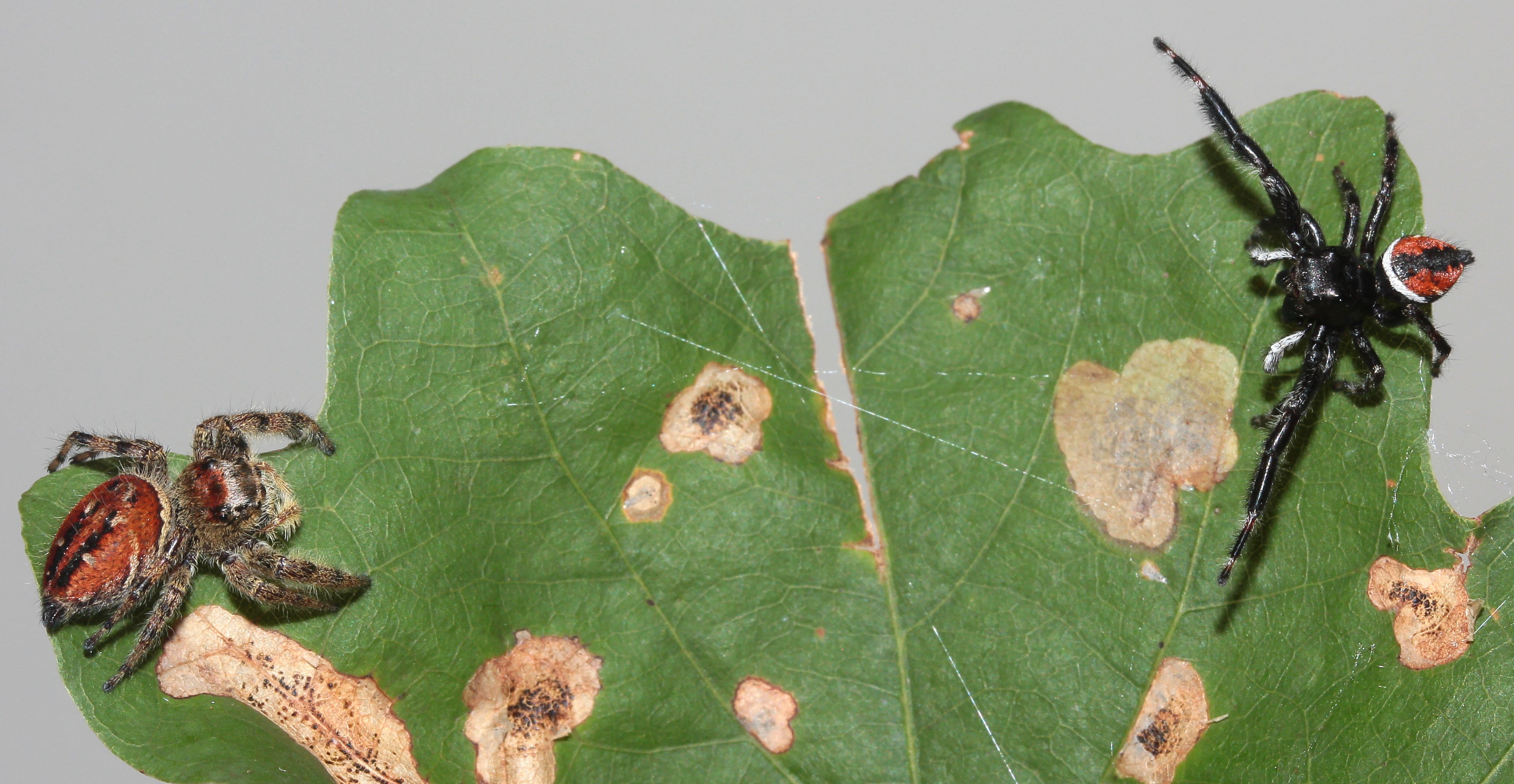 Female courted by male Phidippus clarus southern Greenville County, South Carolina